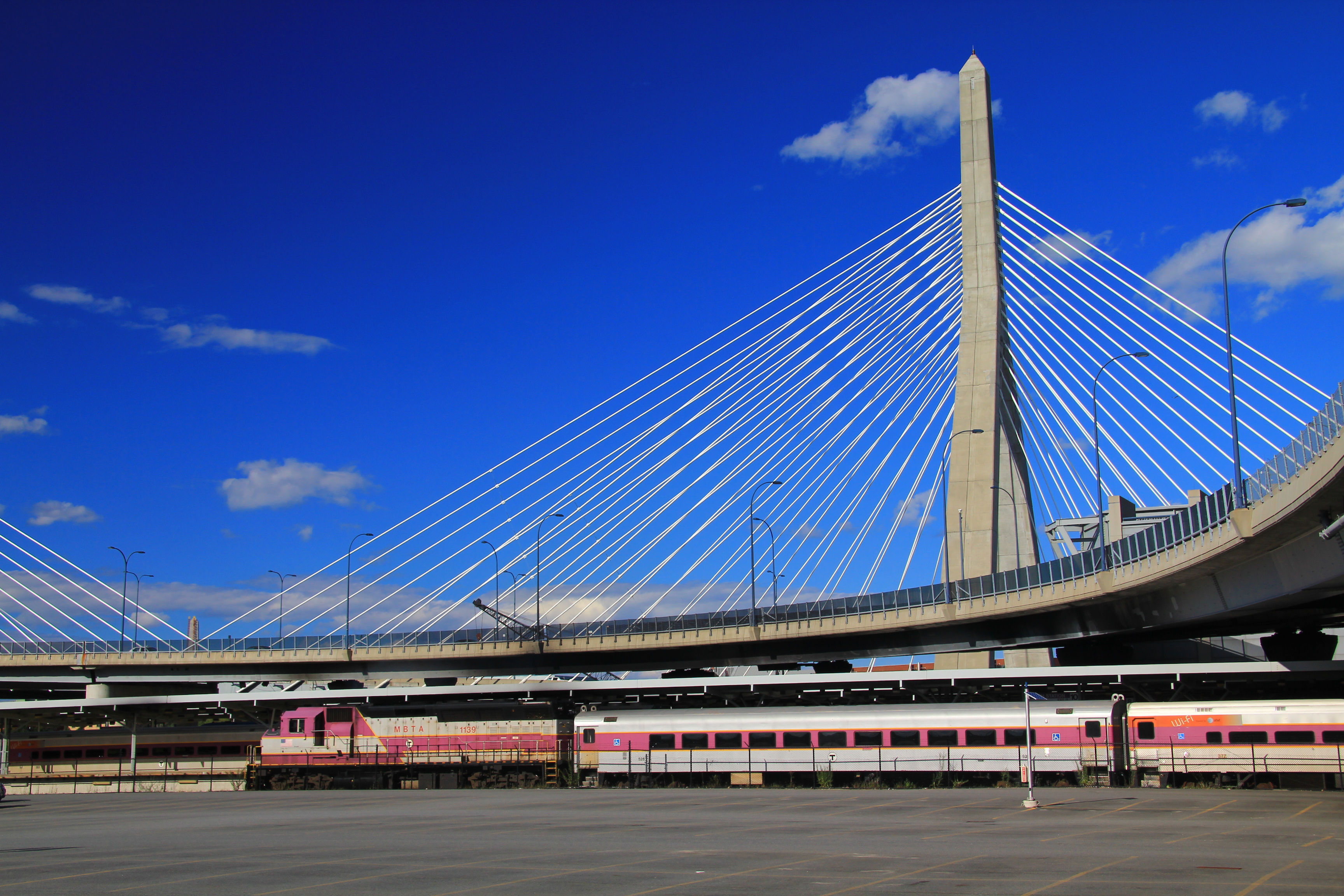 Commuter rail train, led by locomotive #1139, sits at North Station. The Bunker Hill Bridge and Leverett Circle Connector Bridge are above.